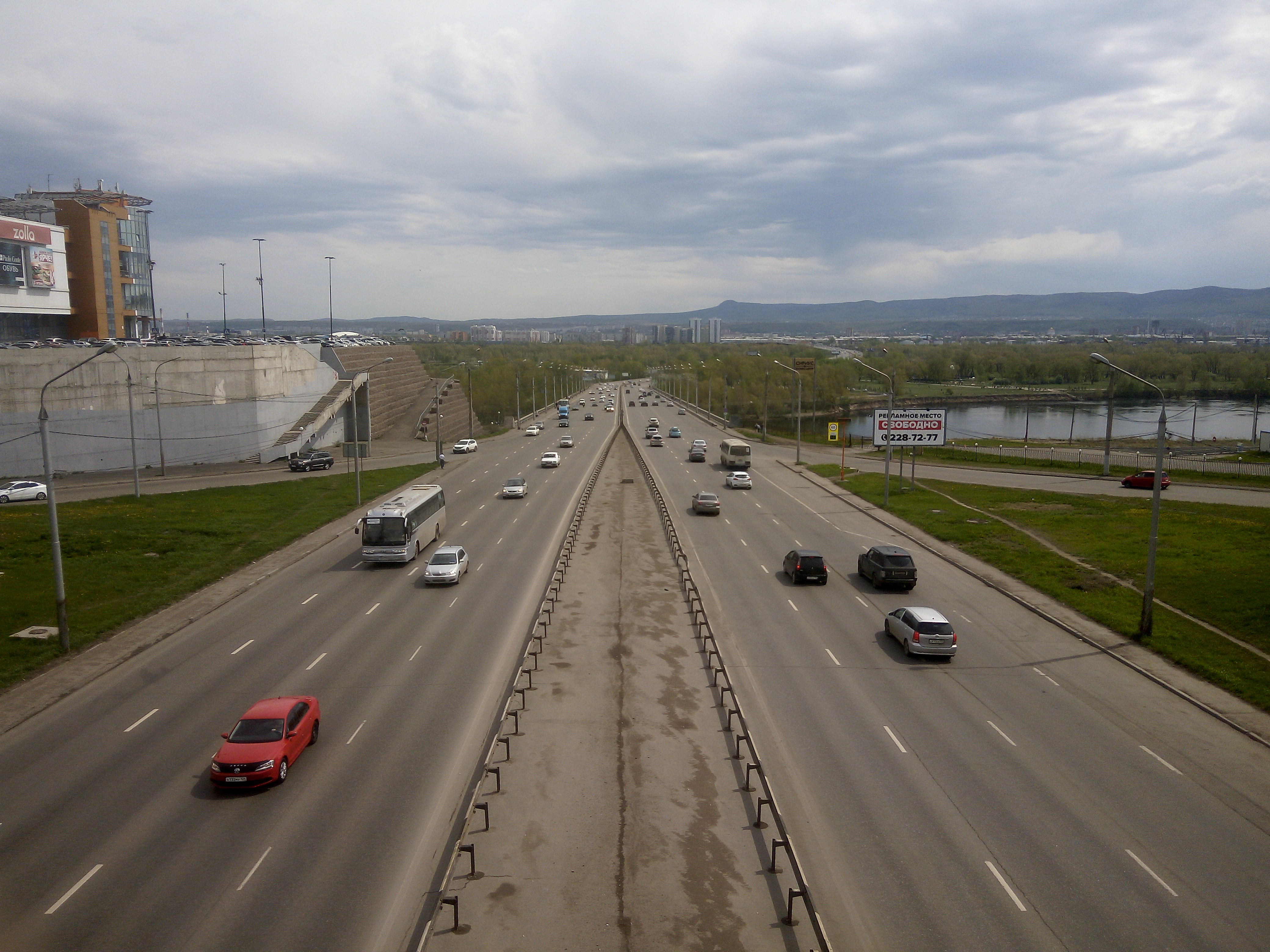 in title